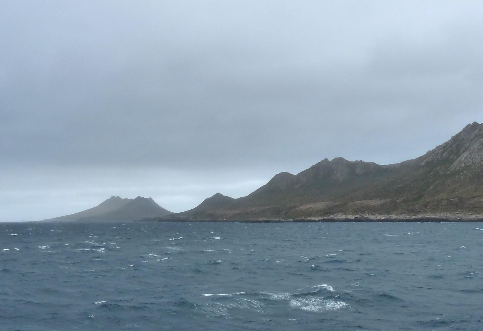 Grand Jason 01